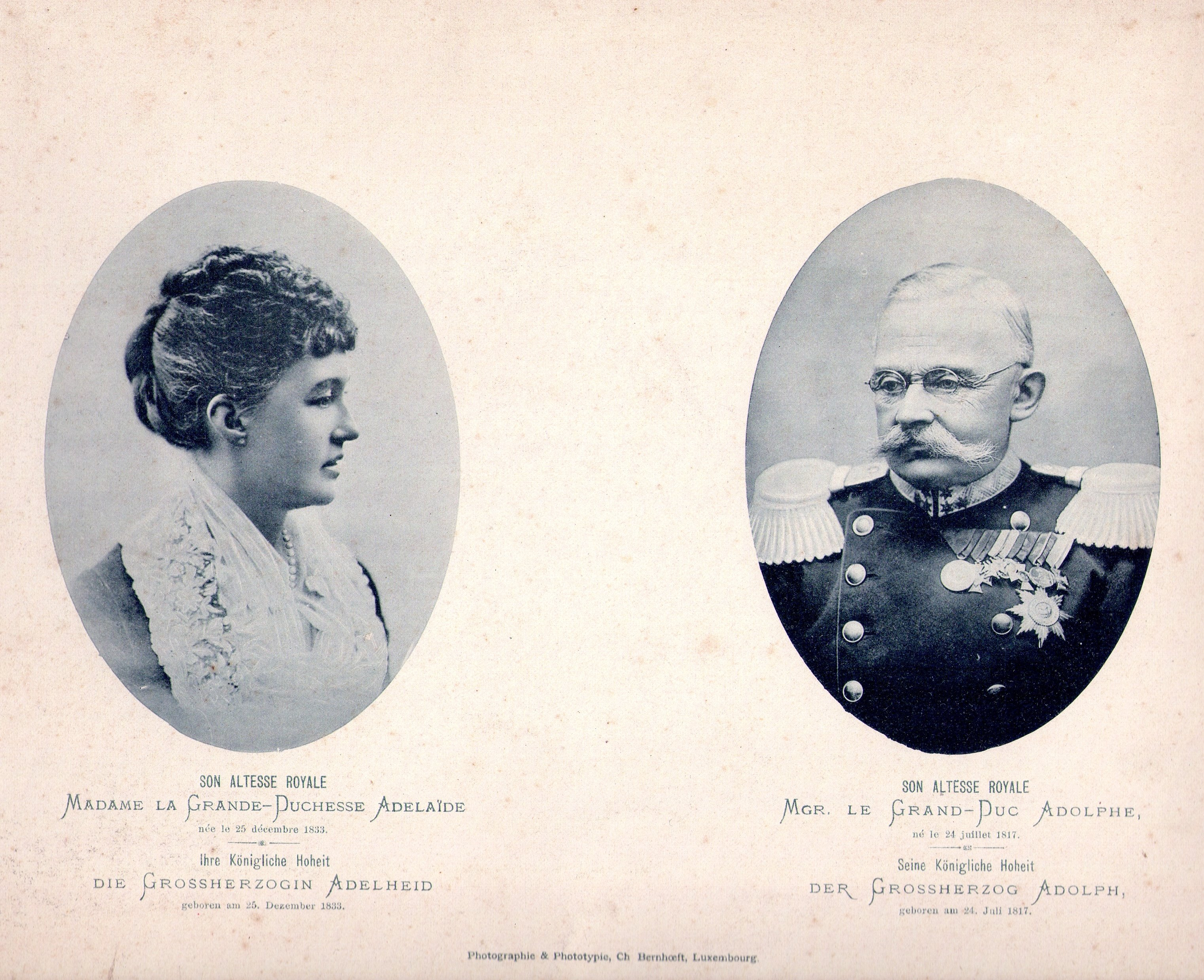 Adolphe and Adelaïde of Luxembourg